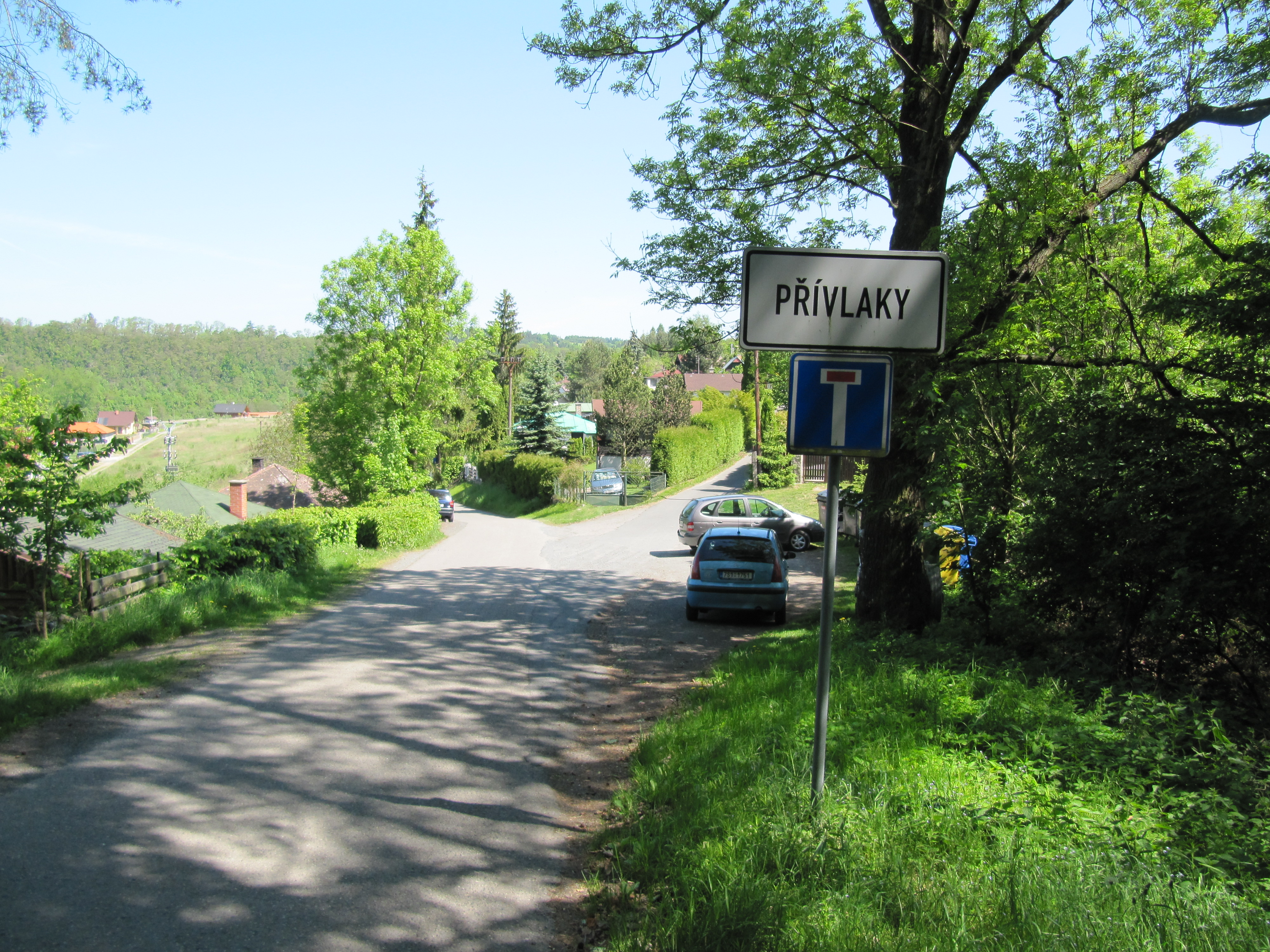 Samopše in Kutná Hora District, Czech Republic, part Přívlaky.